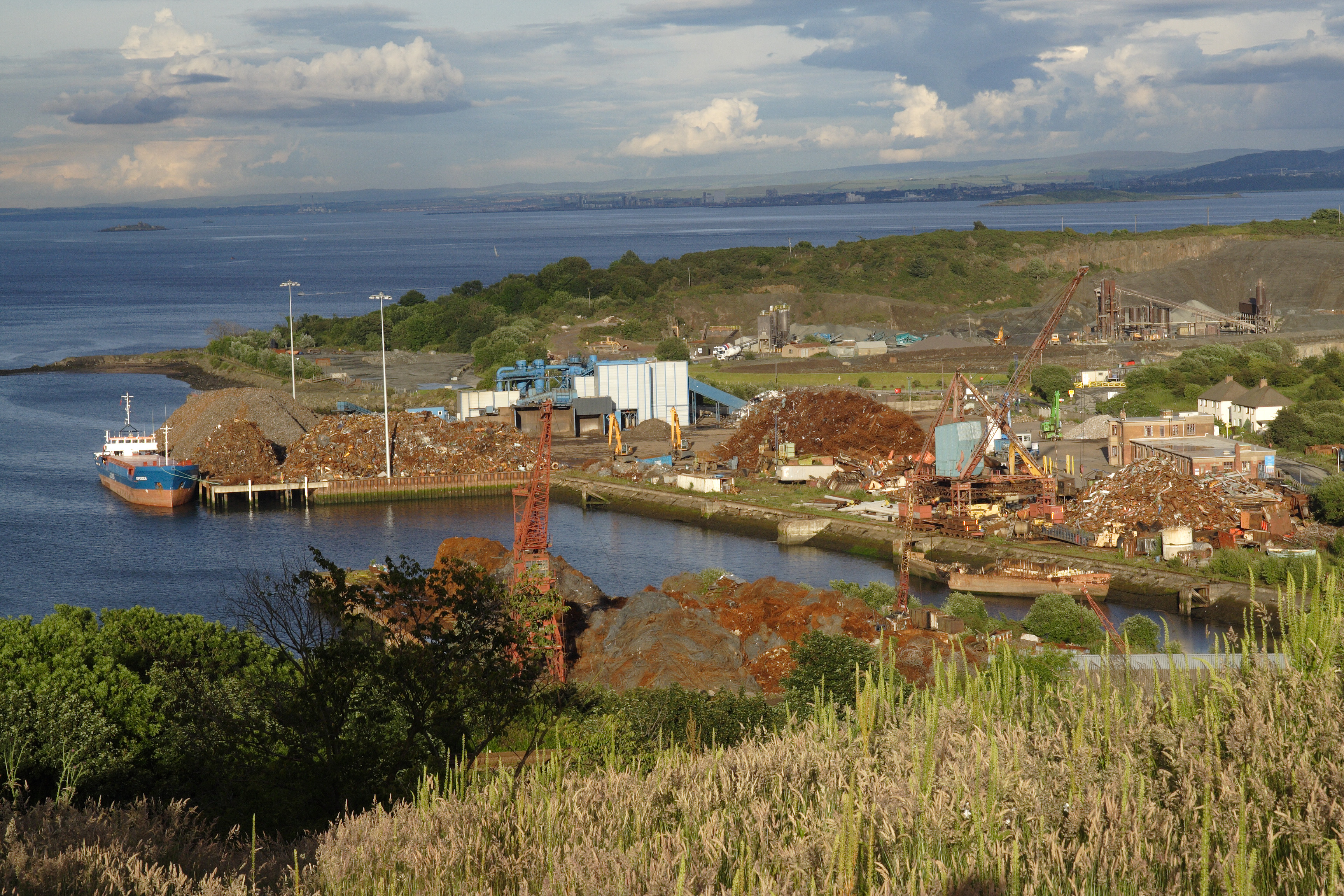 A picture showing Inverkeithing harbour and the firth of forth in Fife, Scotland.